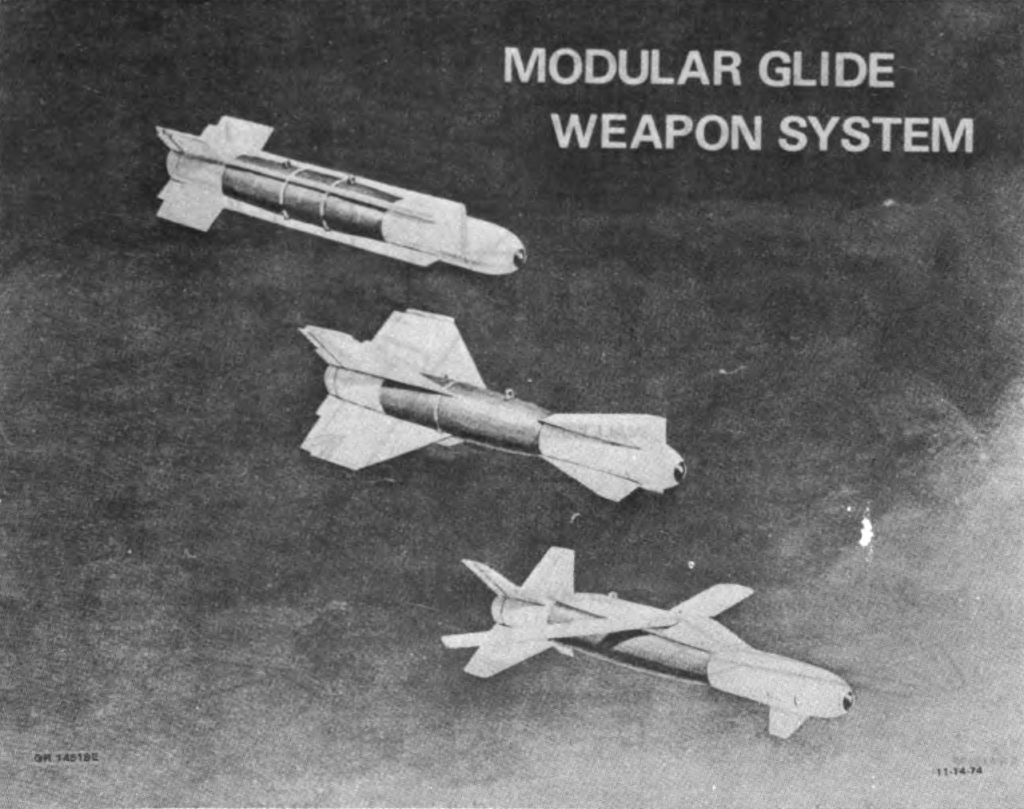 Modular Glide Weapon System